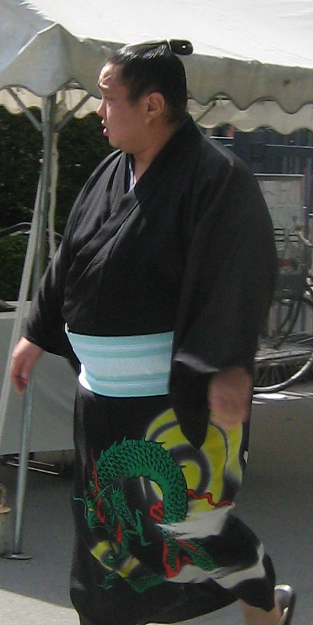 Picture taken at Sep 2008 tournament